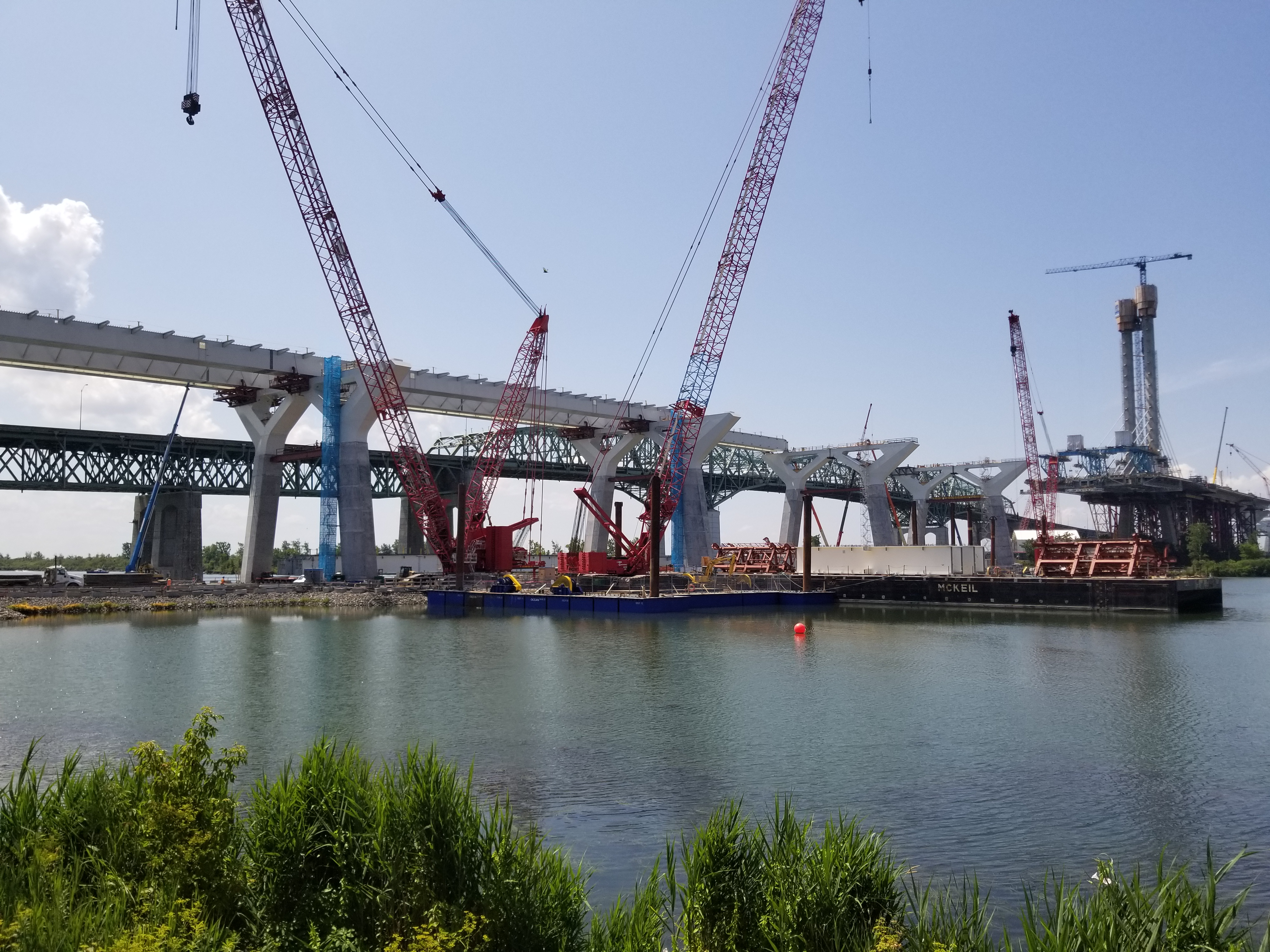 Samuel-De Champlain Bridge in construction seen from bike path in Brossard.